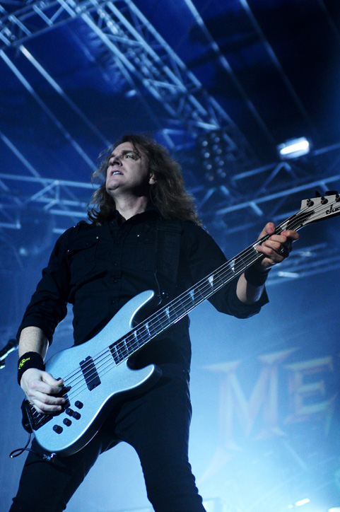 No Sleep Til Festival 2010